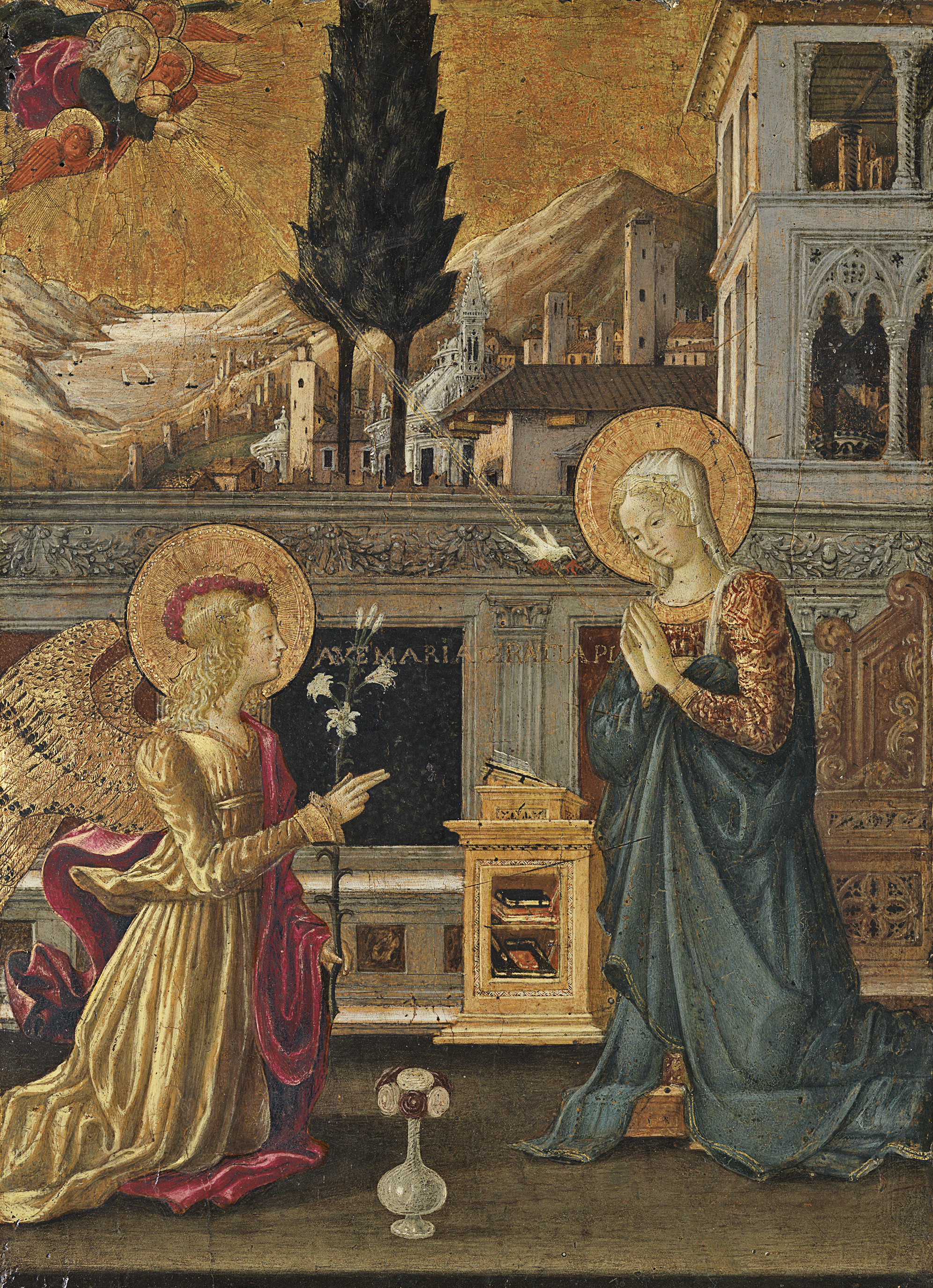 BONFIGLI, Benedetto, Annunciation c. 1455_53